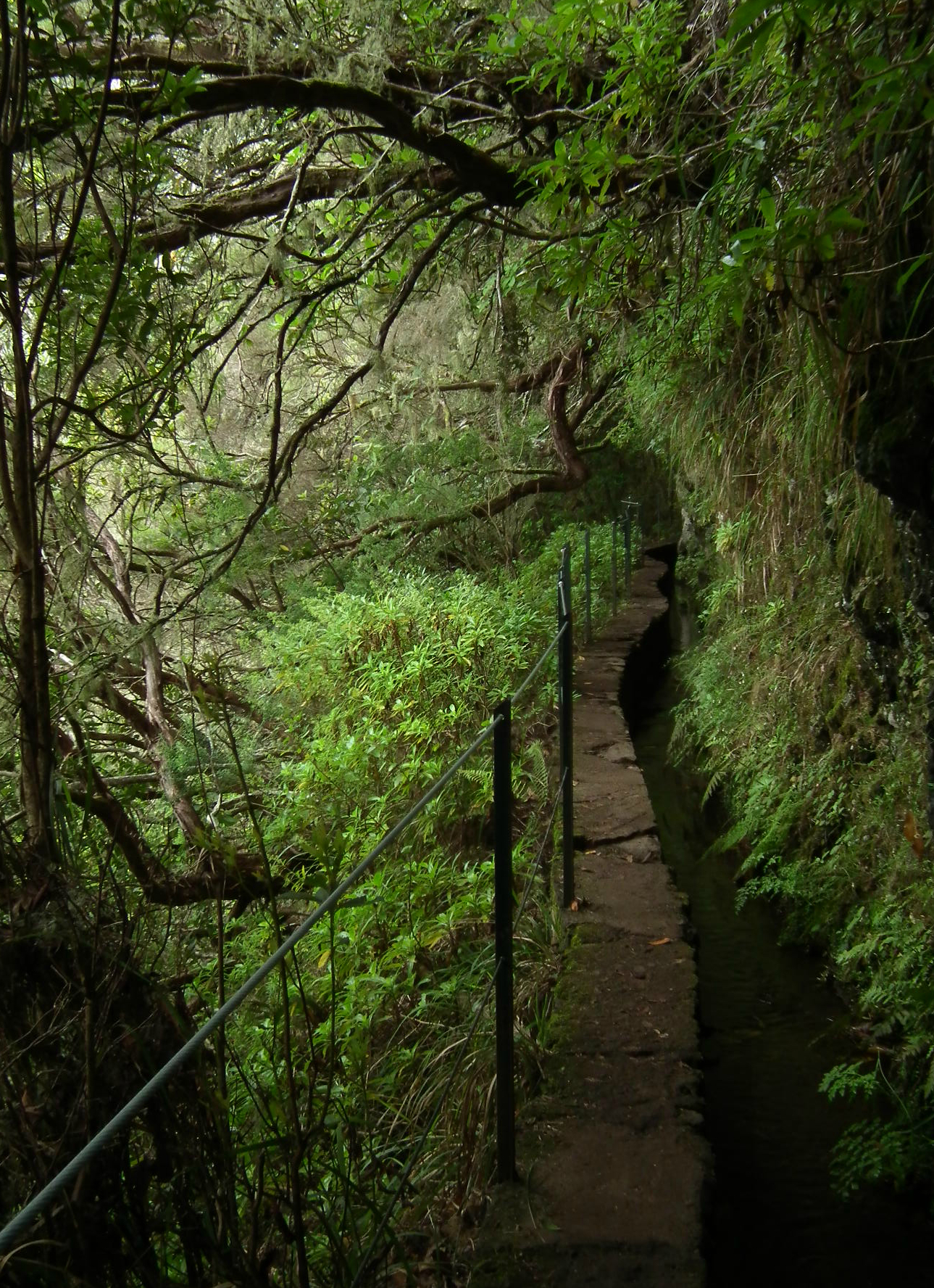 Old roads and passagens between villages and other places in Madeira Island (Atlantic Ocean) surronded by UNESCO protected pré historic forest. This is a photography of a Site of Community Importance in Portugal with the ID: PTMAD0001. Natura2000 entry, EEA entry